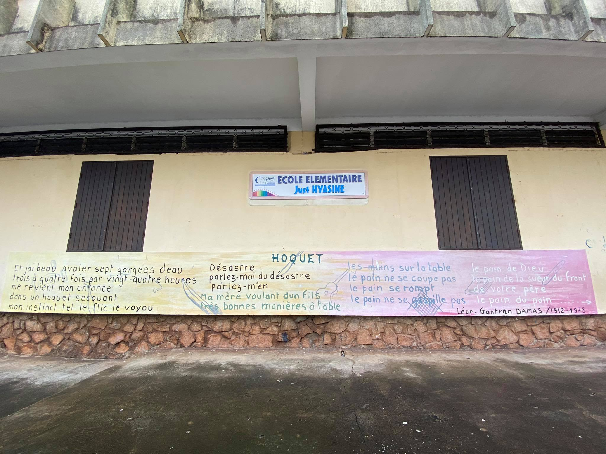 It is an extract from the poem Hoquet in the poetry collection "Pigments" of L-G Damas. This extract is painted on the wall of a primary school of Cayenne in French Guiana.